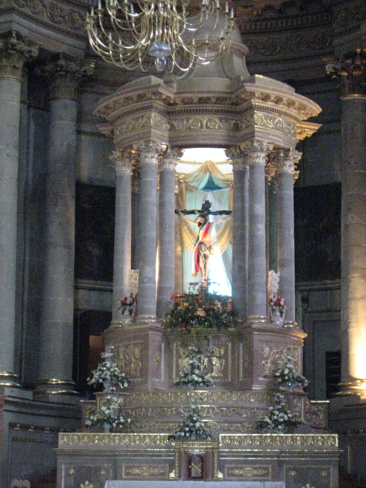 Closeup of altar of the Parish of San Miguel Arcángel in Ixmiquilpan, Hidalgo State, Mexico